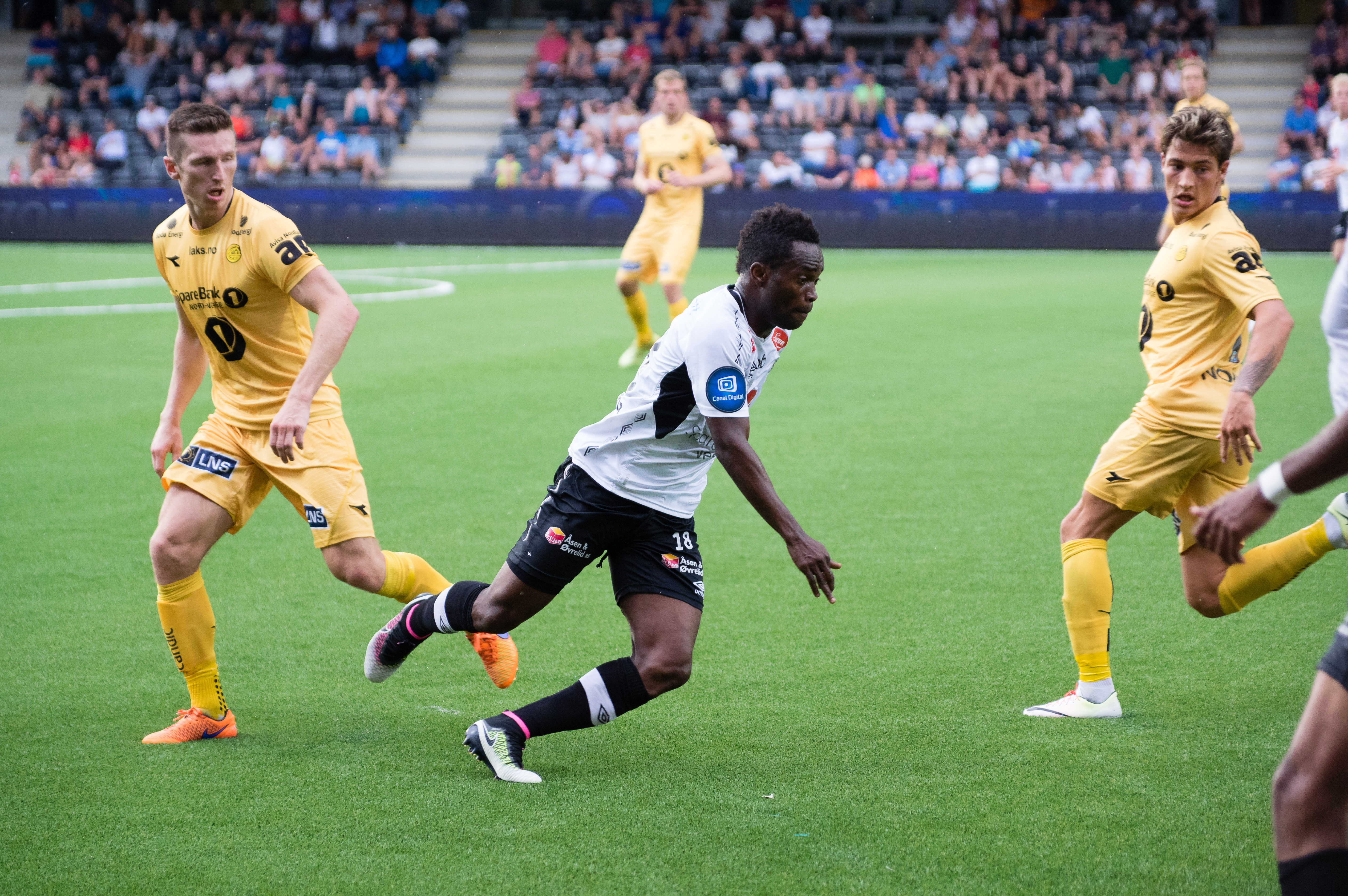 Mahatma Osumanu Otoo (white shirt).